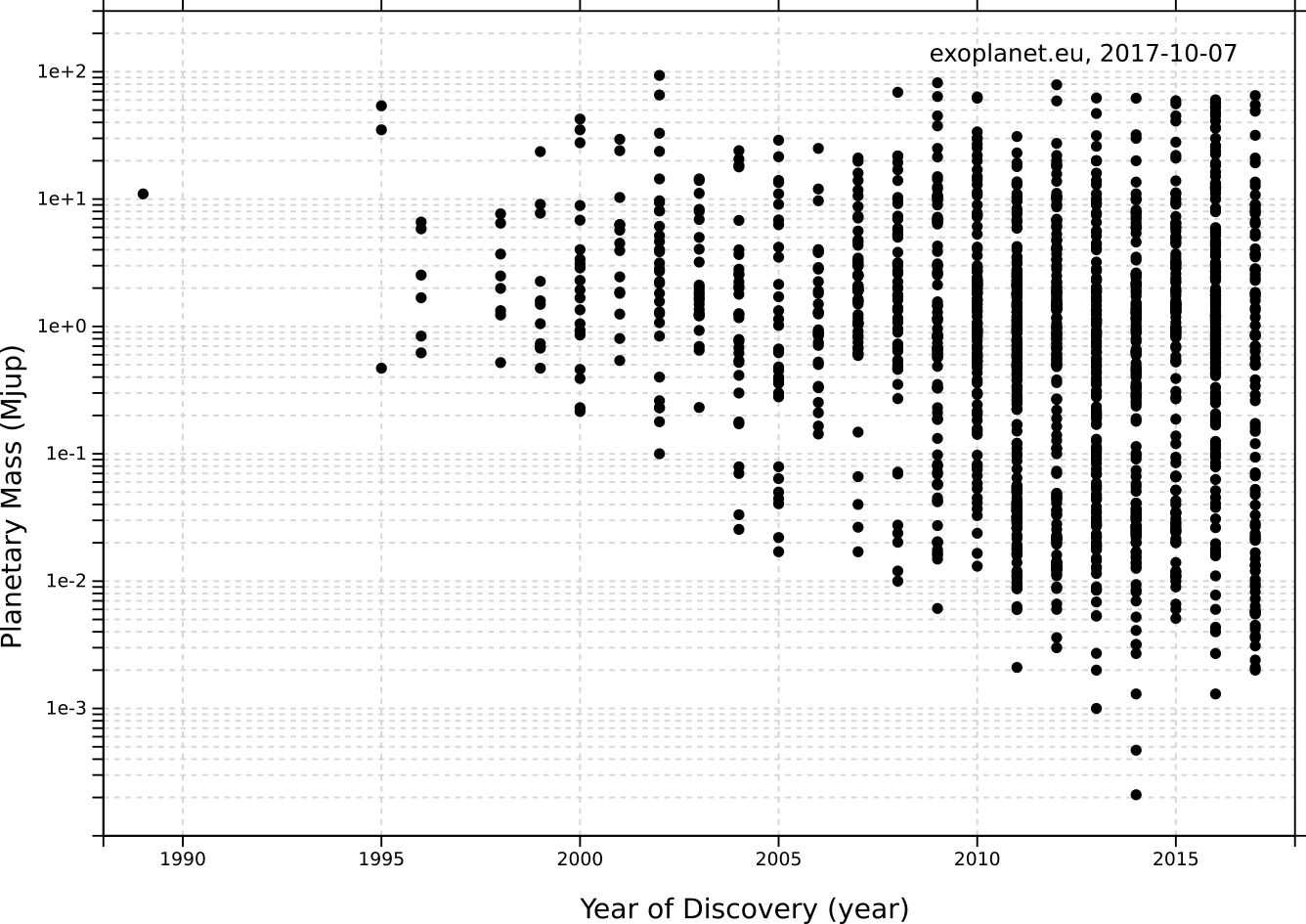 The mass of exoplanets over the year of discovery. Excluded are exoplanets wich discovery is discussed controversial and exoplanets in pulsar systems.